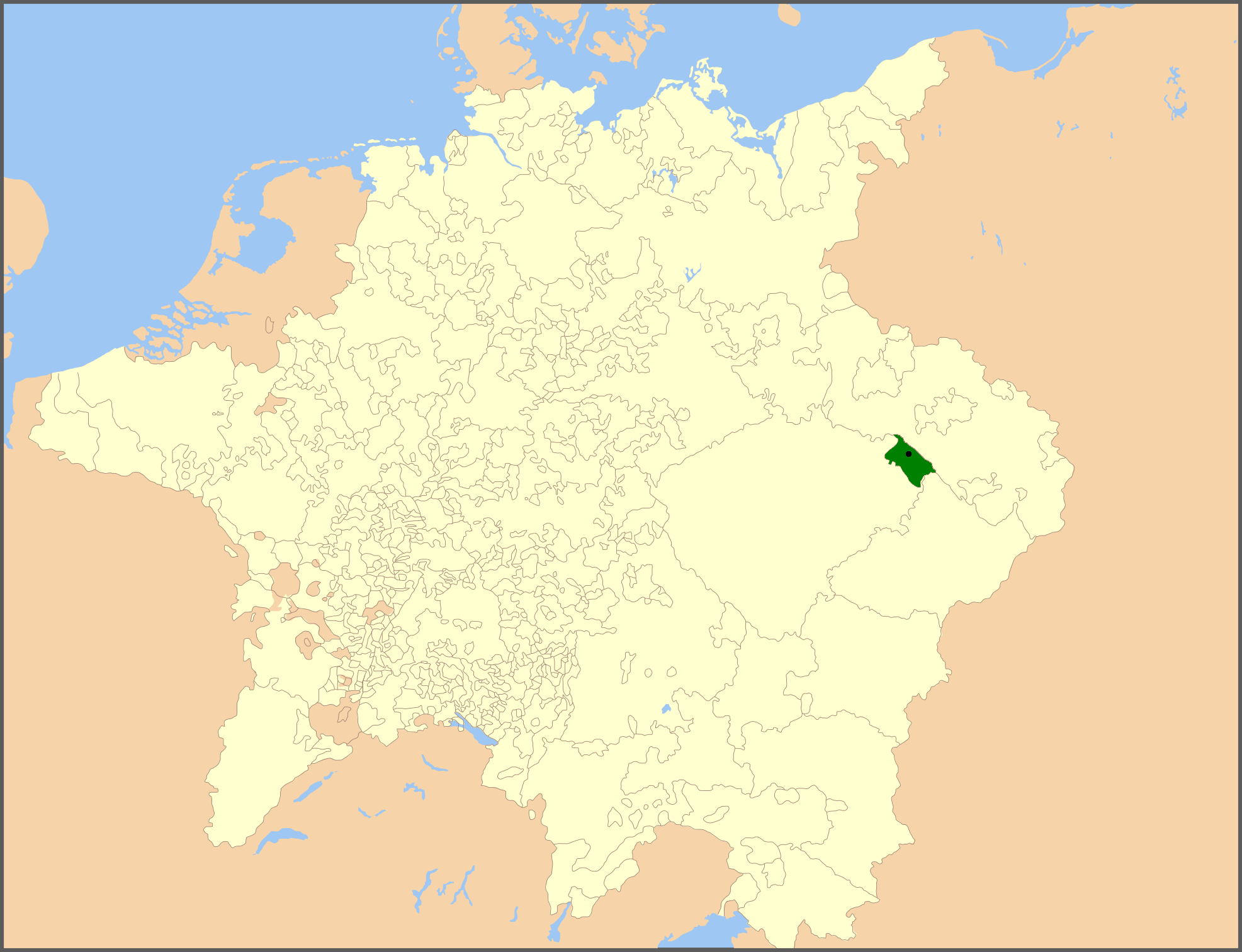 Map of the Holy Roman Empire, 1648, with the county of Glatz/Kladsko/Kłodzko highlighted